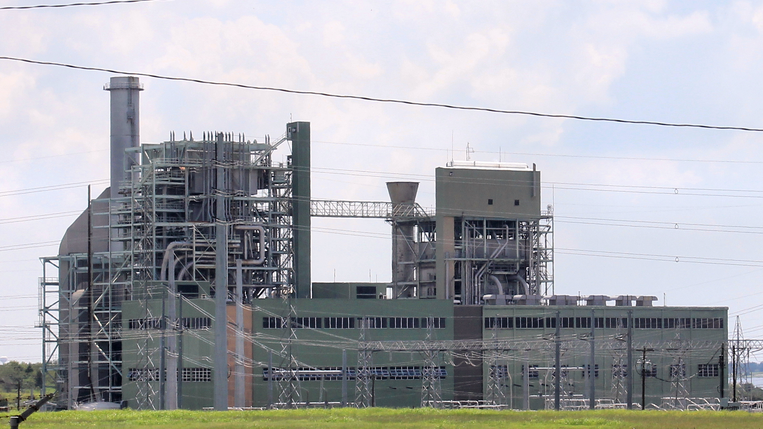 Decker Creek Power Station, a natural gas fired power plant on Lake Walter E. Long, Austin, Texas, United States.